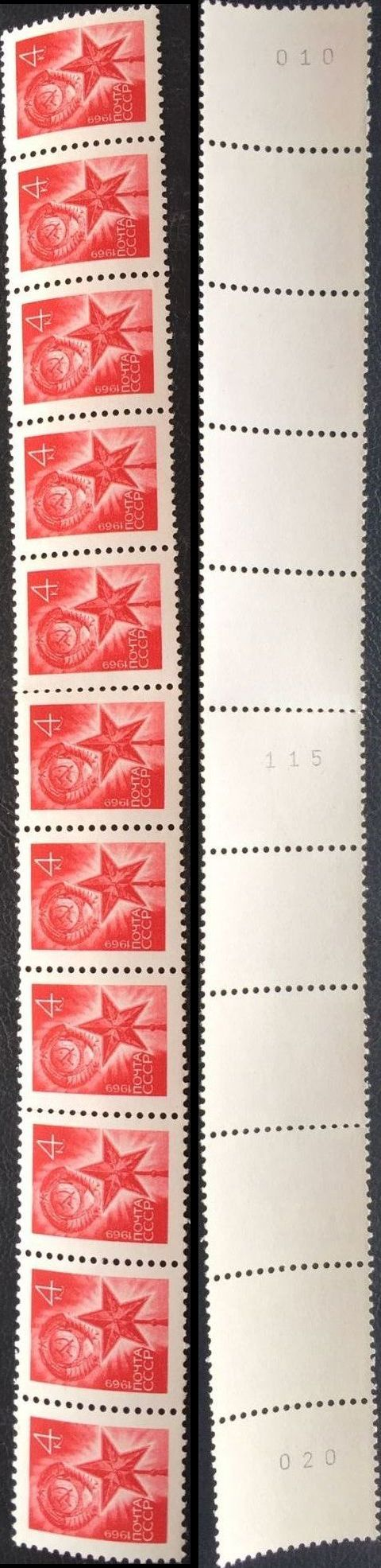 USSR stampː Kremlin Red Star and USSR Arms. Seriesː The Definitive Coil Stamp for Stamp Vending Machine. Strip of 11 and back